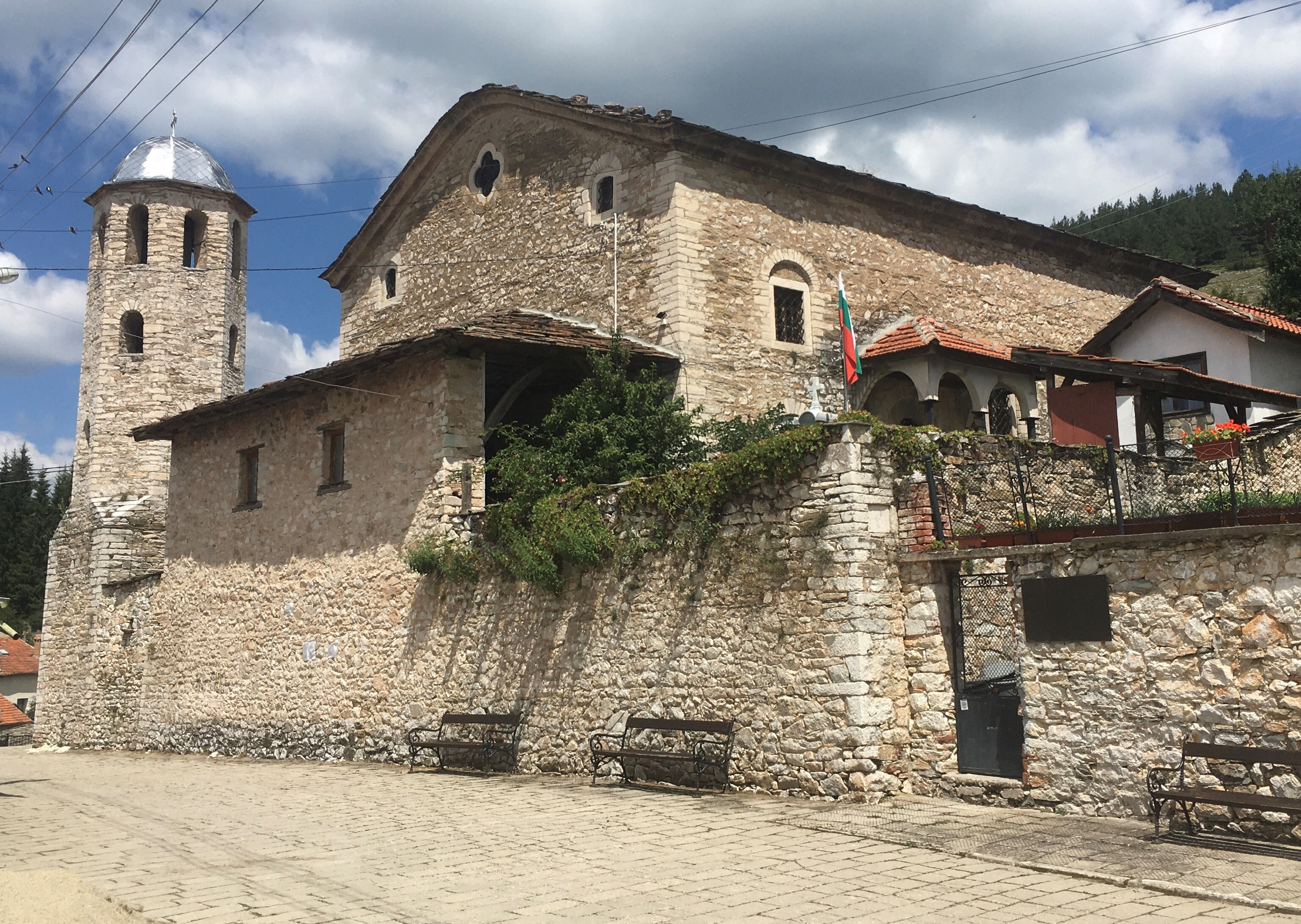 This is a photo of the church in Lilkovo that I took today (August 10, 2020)